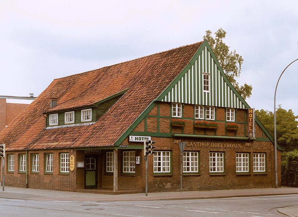 Elmshorn (Germany),Inn "Drei Kronen" , photo 1999